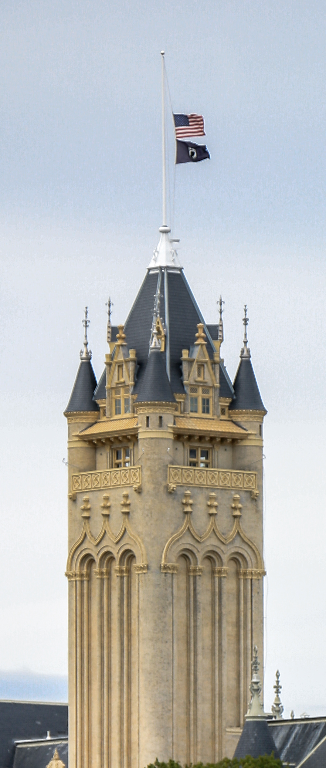 Spokane County Courthouse